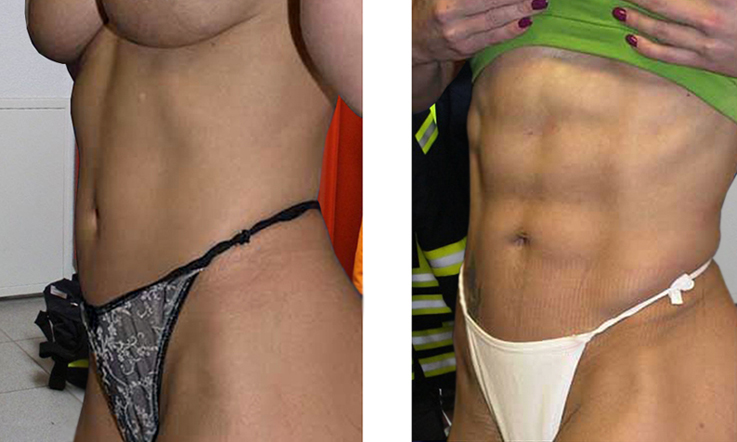 Photo made with self-timer of my abdominal liposuction (liposculpture)